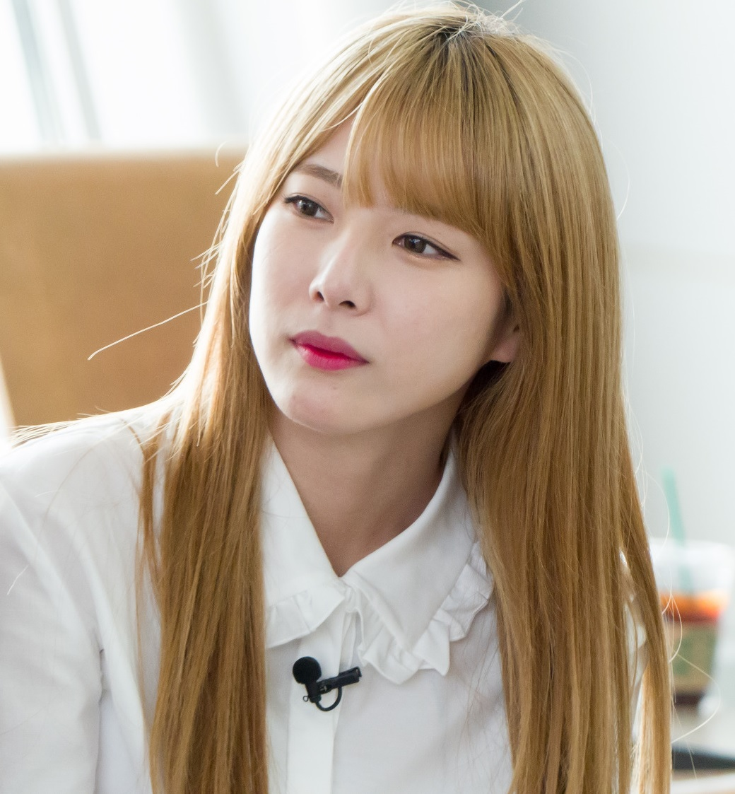 160922 아이비아이 이해인 @ 인천공항 출국&헬로 아이비아이 촬영